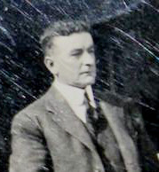 Jimmy Aitken c1920